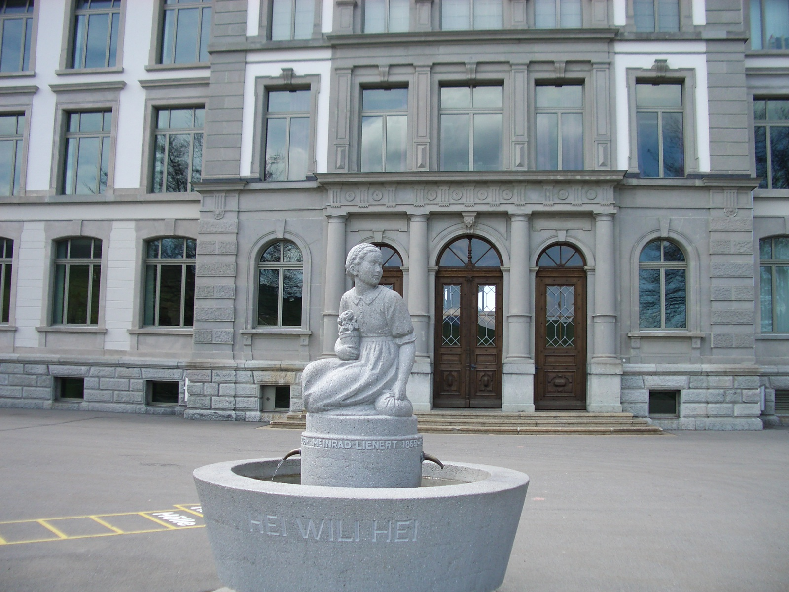 Meinrad Lienert, Swiss Writer